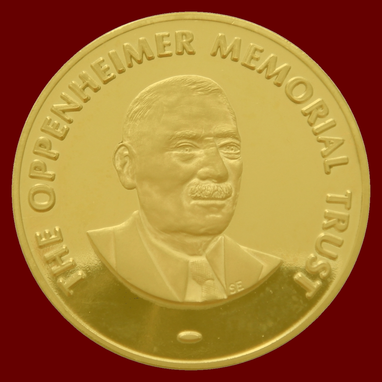 Photograph of the medal presented to winners of the Harry Oppenheimer Fellowship Award.